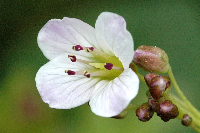 Cardamine amara from Commanster, Belgian High Ardennes .